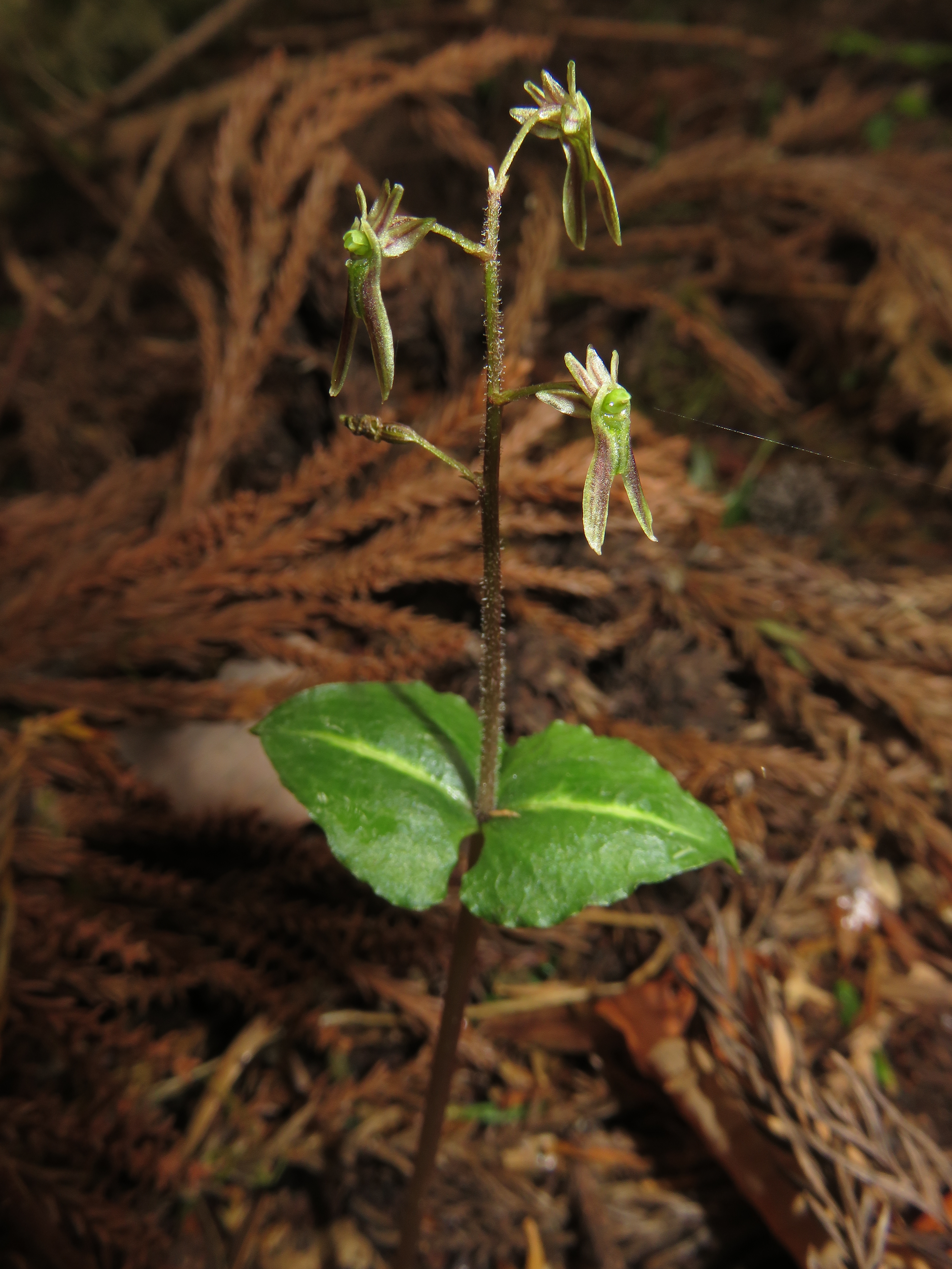 Neottia japonica, Hama-dori area, Fukushima pref., Japan